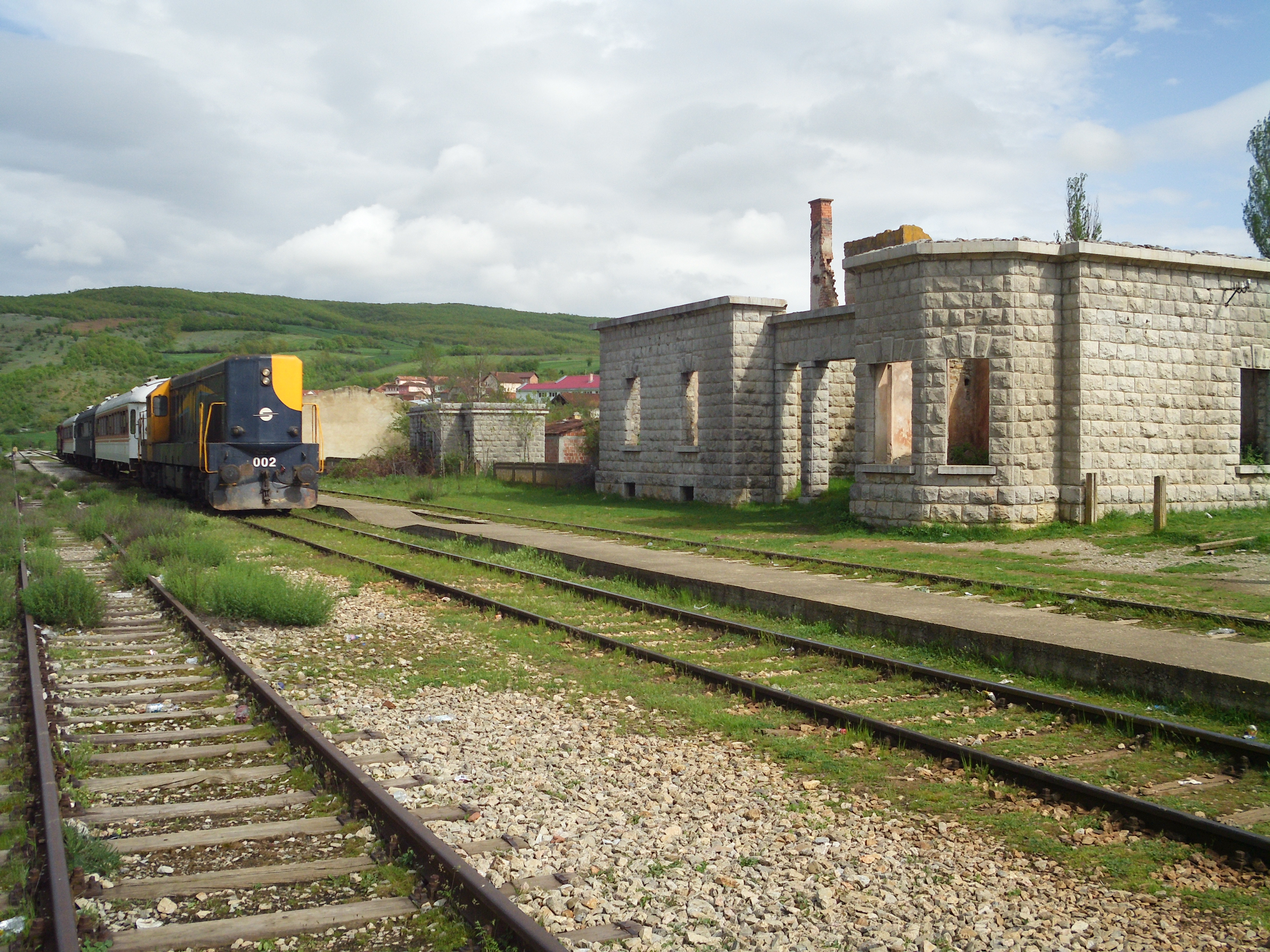 A tourist train in Ujëmir (Dobra Voda), Kosovo.